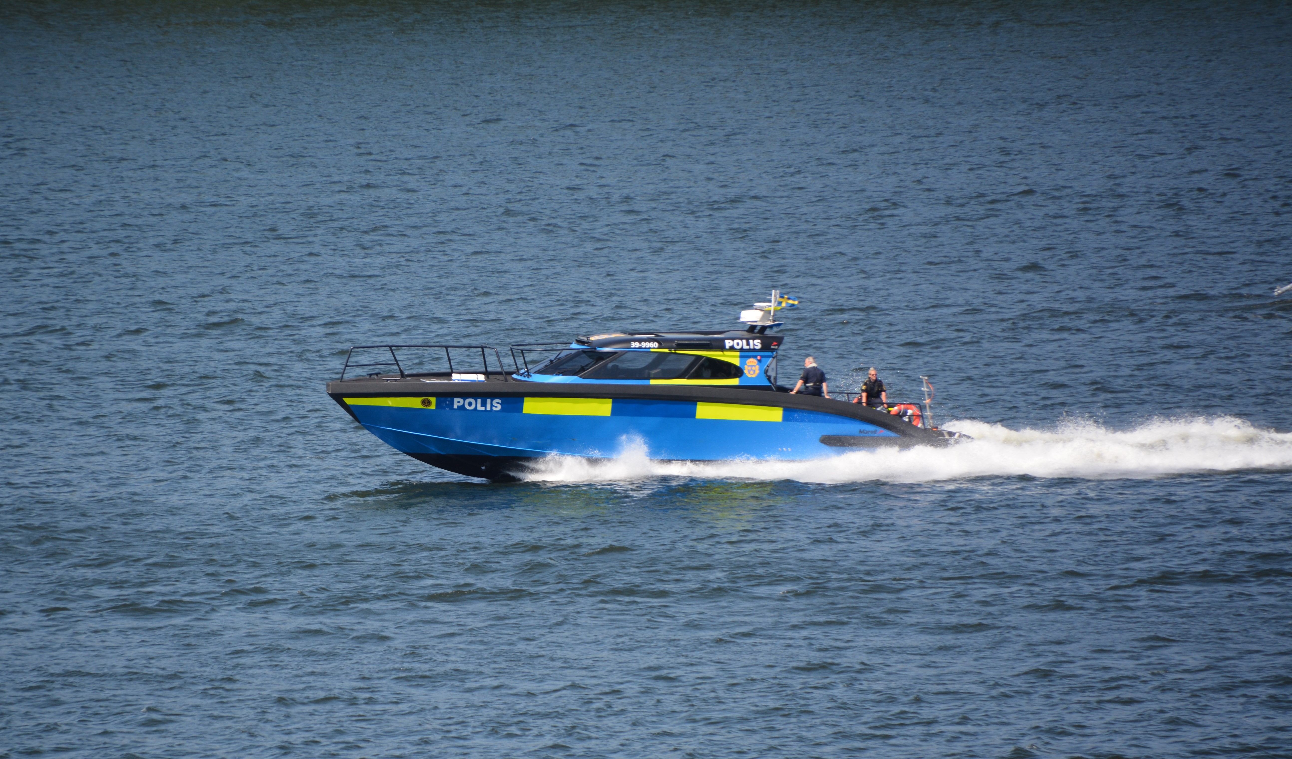 Marell M15 patrol boat on lake Mälaren, Sweden